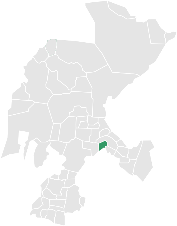 Map of the Municipality of Cuauhtémoc in Zacatecas, México.